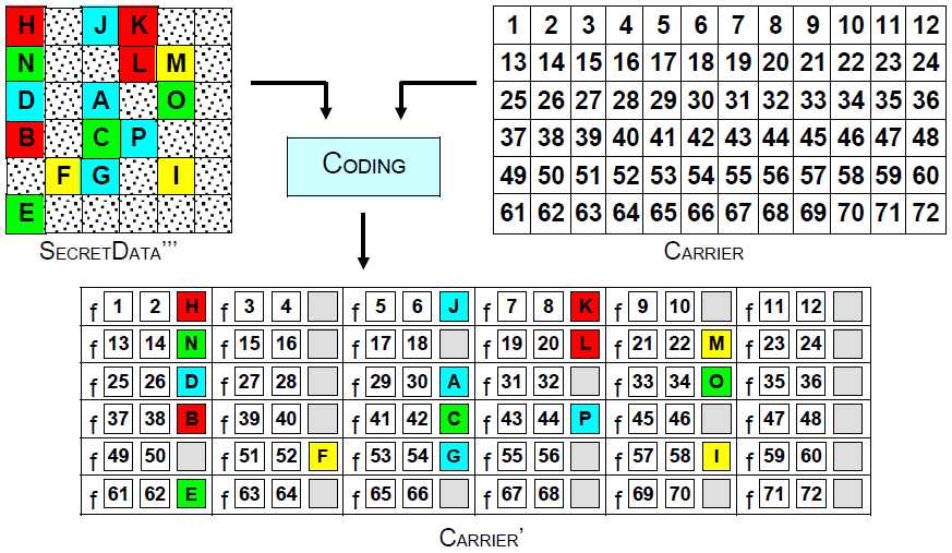 OpenPuff v3.30 Architecture - 13